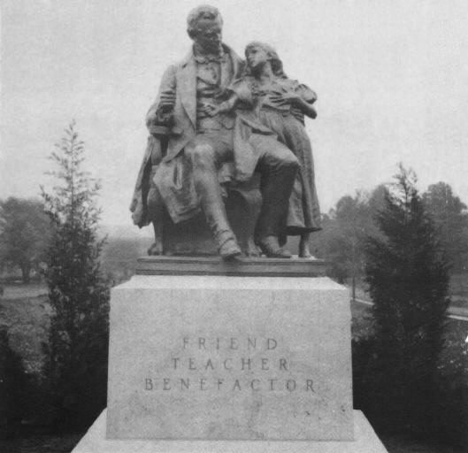 Statue by Daniel Chester French of Alice Cogswell and Thomas Hopkins Gallaudet. Located in front of Chapel Hall at Gallaudet University.